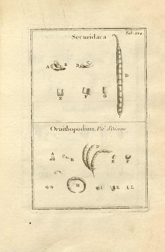 Tab 24 from Corollarium Institutiones Rei Herbariæ in Quo